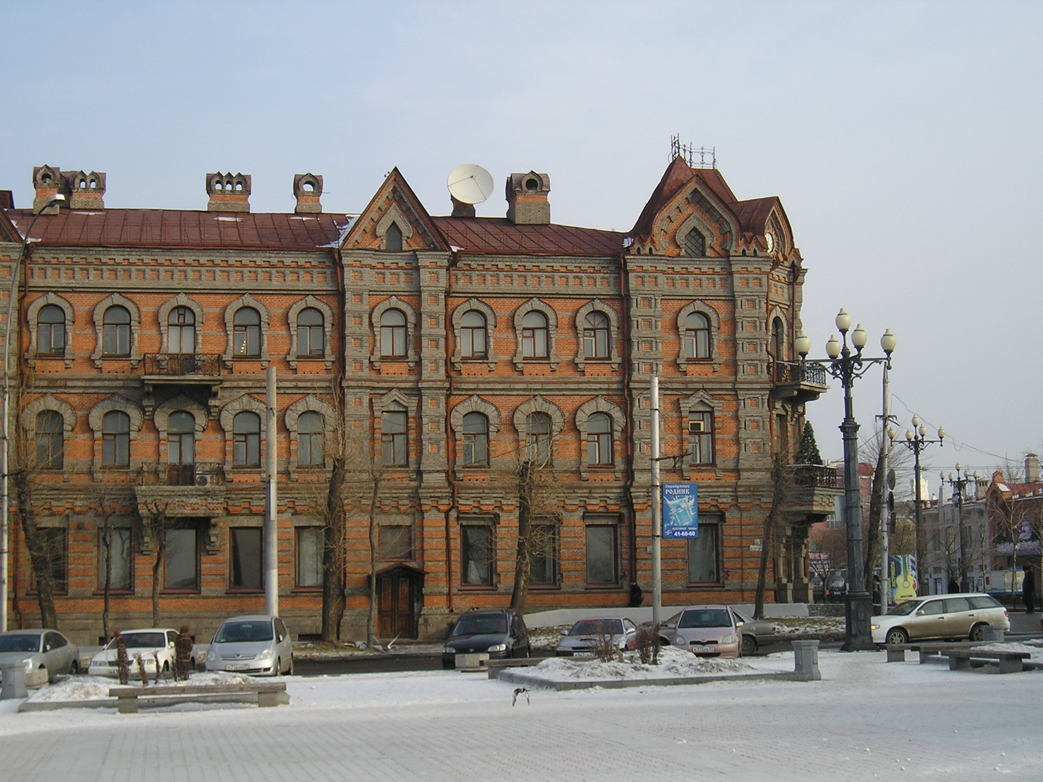 Territorial research library in Khabarovsk. Muraviev-Amurskiy street 1